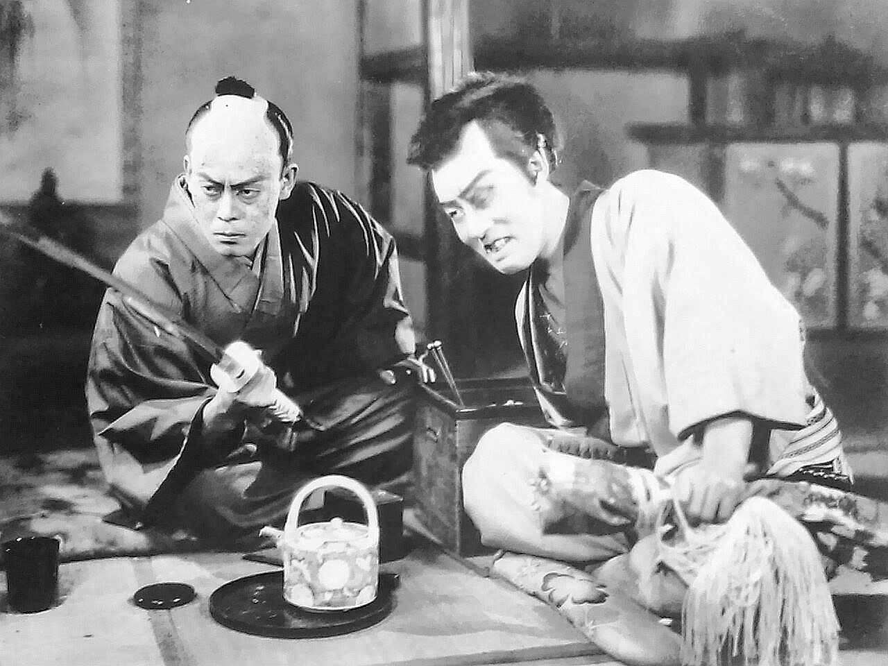 Reisaburō Yamamoto and Kanjūrō Arashi in Shinban Ōoka seidan (新版大岡政談) directed by Buntarō Futagawa - 1928